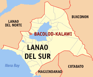 Map of the Lanao del Sur showing the location of Bacolod-Kalawi